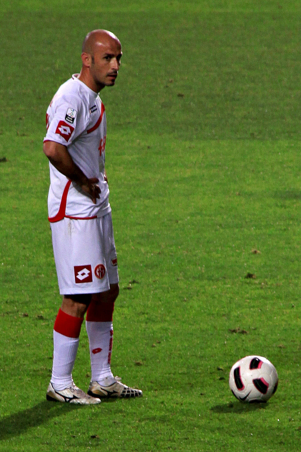 Vincenzo Italiano, Italian football player, midfielder for Padova of Serie B.